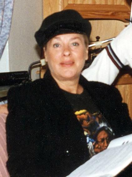 Swedish actress Eva Bysing, as released by image creator Lars Jacob ProdPlace: Frödingsvägen 1, Gubbängen, Sweden